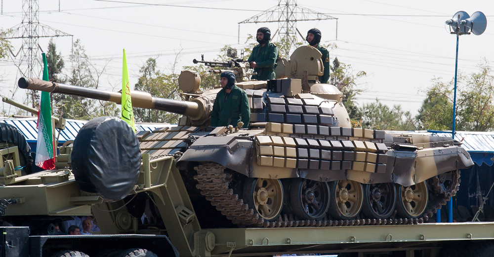 Iranian Safir tank